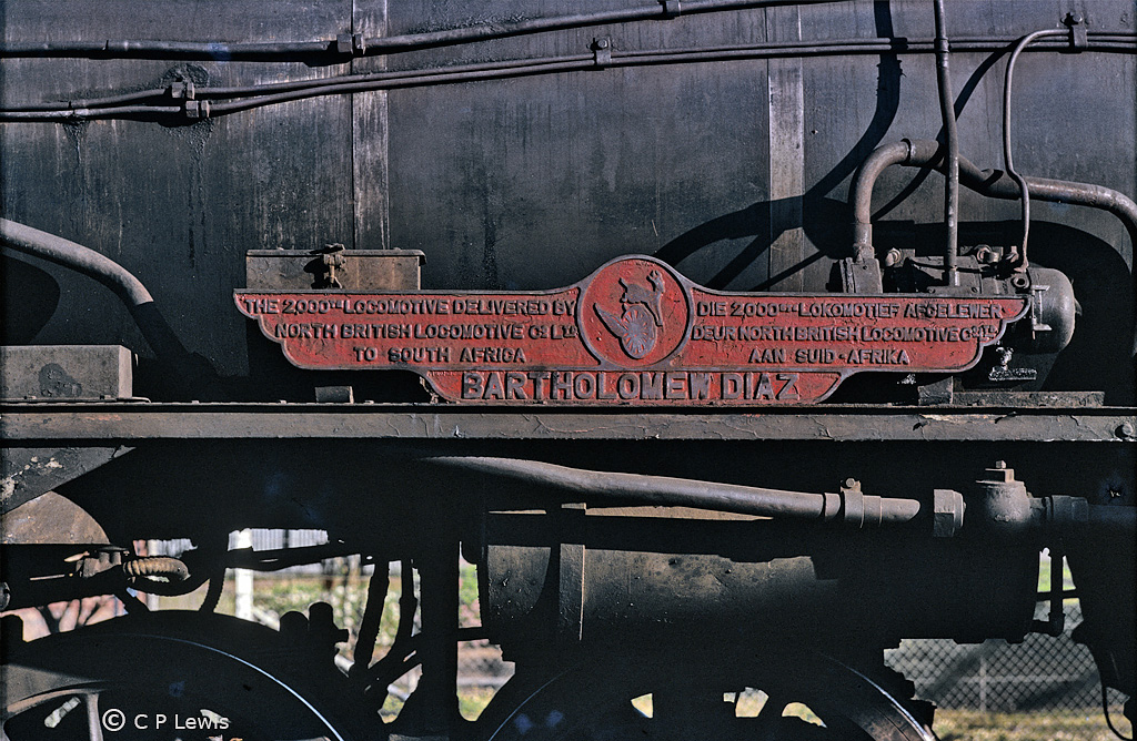 24 3675 (Bartholomew Diaz)